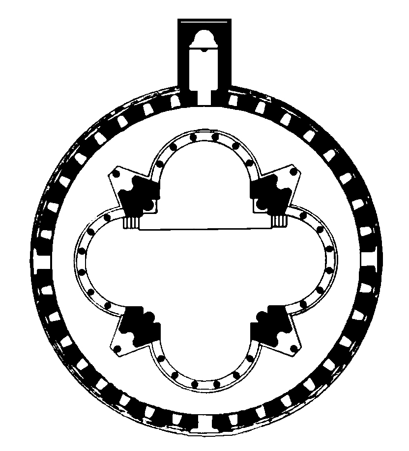 Plan of Gagkashen church in Ani